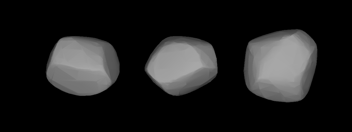 A three-dimensional model of 378 Holmia that was computed using light curve inversion techniques.